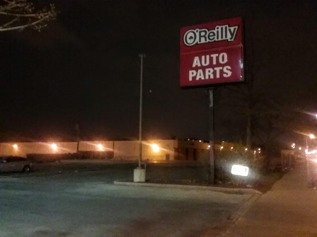 This is where an O'Reily used to stand until it was burned down to the ground on August 13, 2016. Now as of May of 2018 it is just a slab of concrete